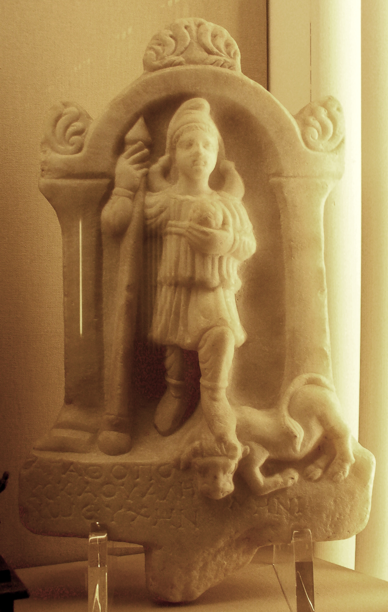 Marble relief of the Phrygian god Men. Roman, late 2nd century CE.